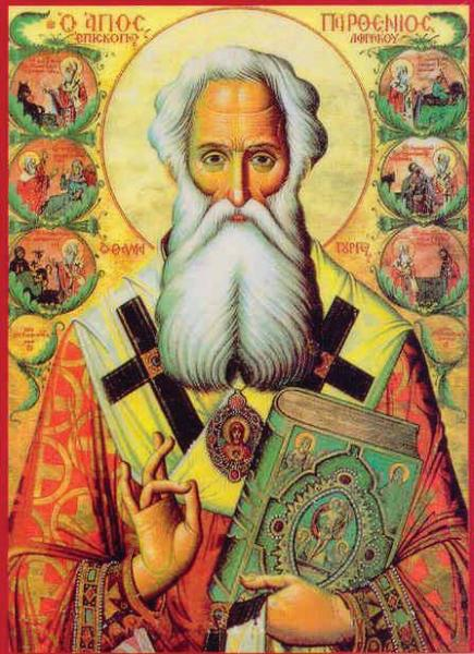 St. Parthenios of Lampsakos.